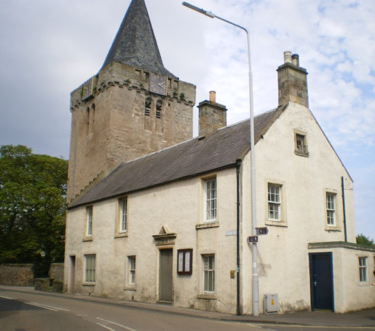 Anstruther Church, Hew Scott Hall and the old Town Hall